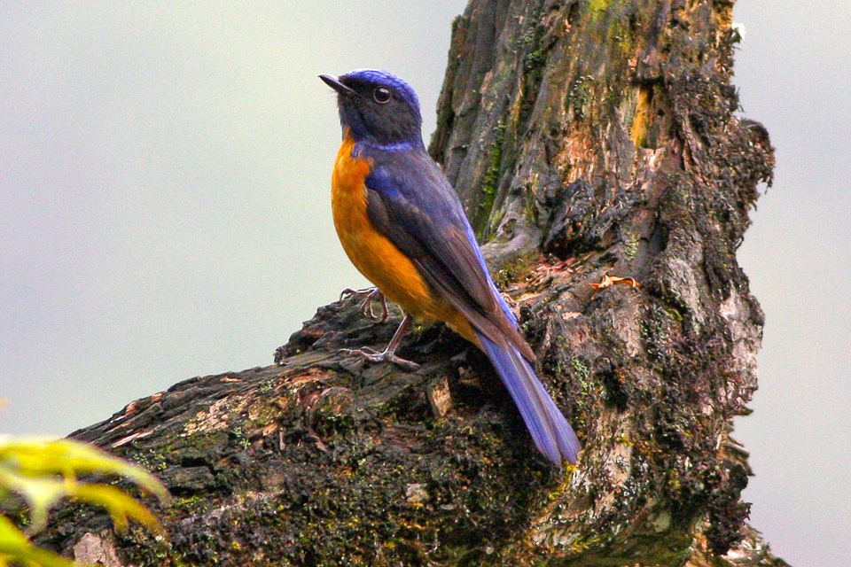 A Vivid Niltava in Wawu Shan, Sichuan, China.